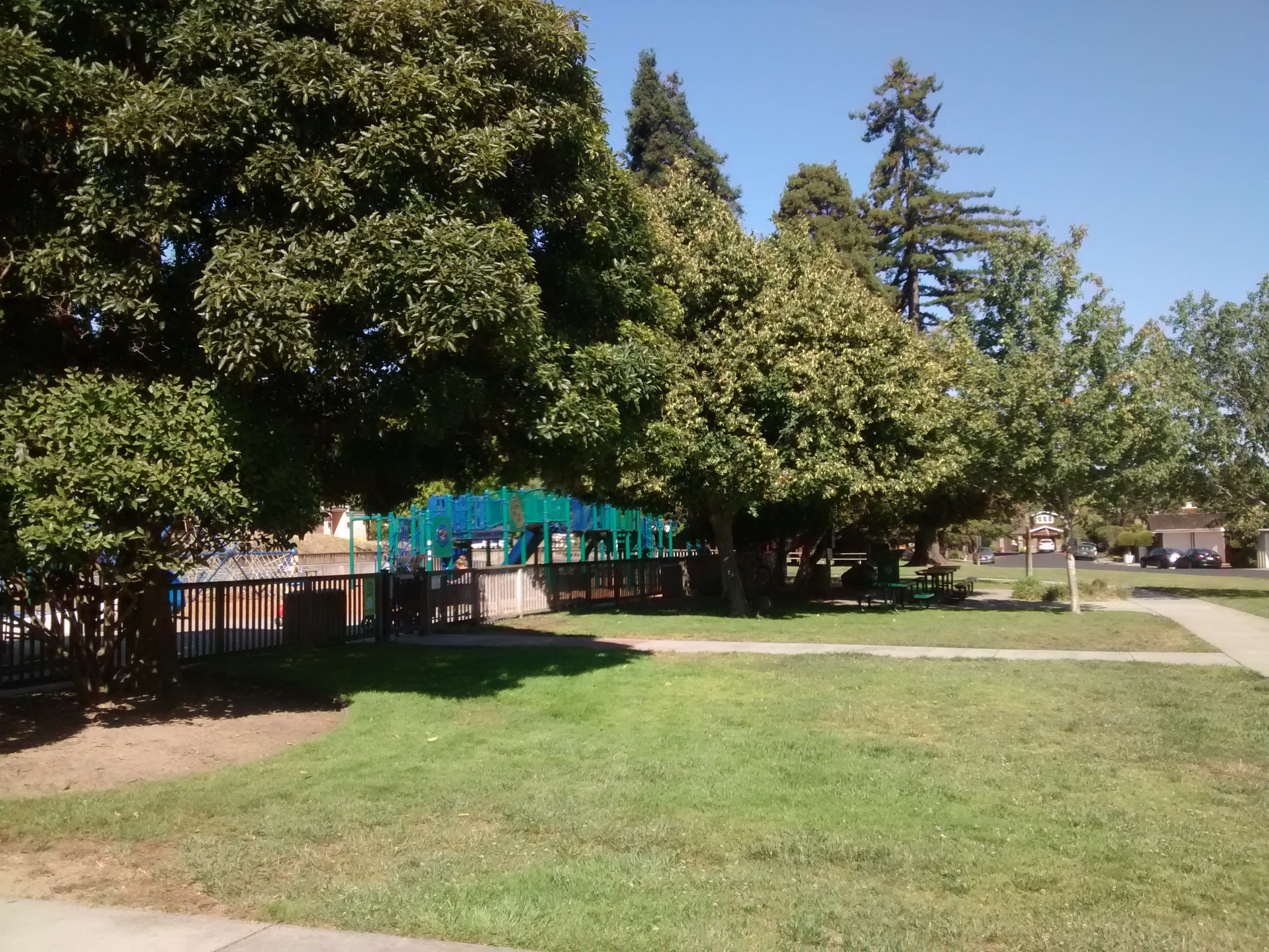 Belvedere Park, California.